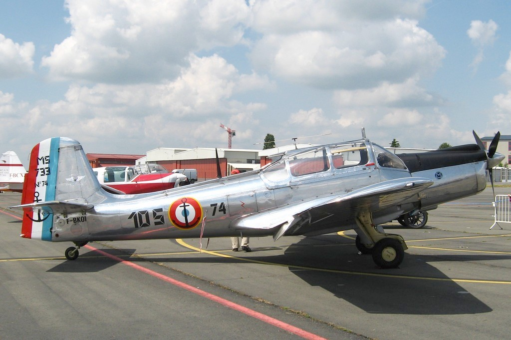 Preserved Morane-Saulnier MS.733 Alcyon aircraft (N°74, F-BKOI) on display at Margny-Compiègne airport (LFAD) on 27 June 2009.